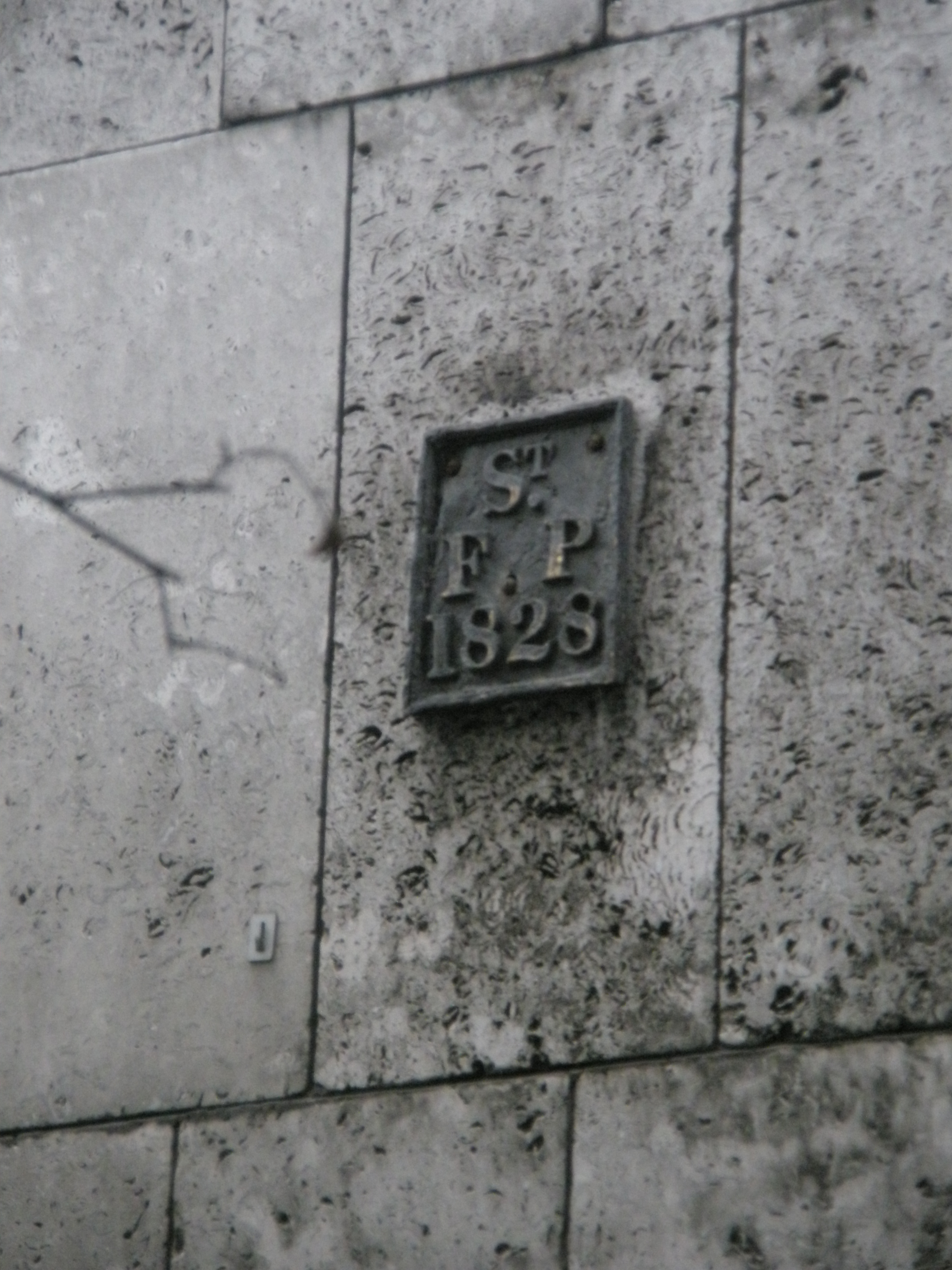 St faith's plaque in New Change